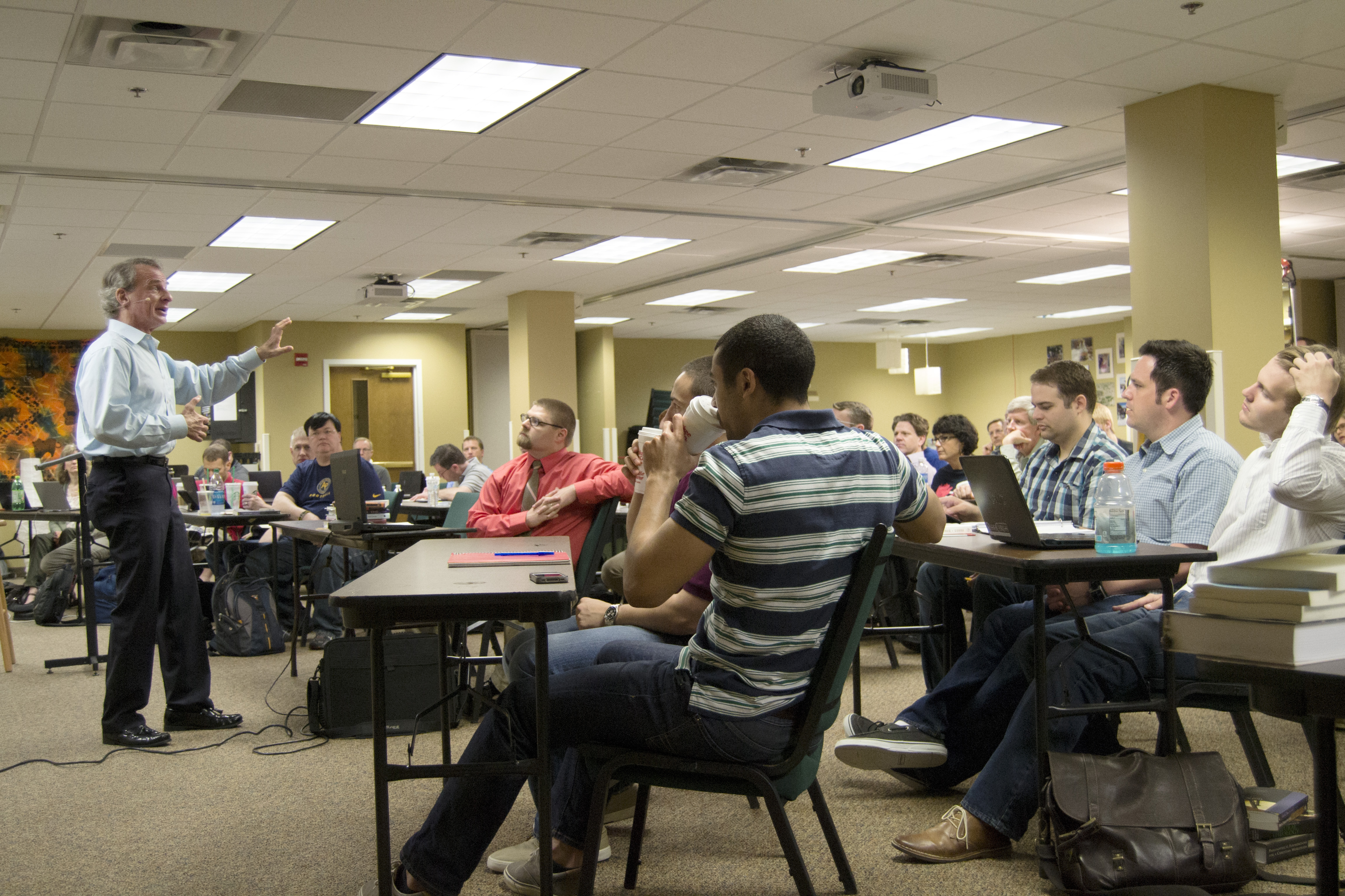 Dr. Craig teaches at his annual seminar at Johnson Ferry Baptist Church. The theme for 2015 is The Coherence of Theism.